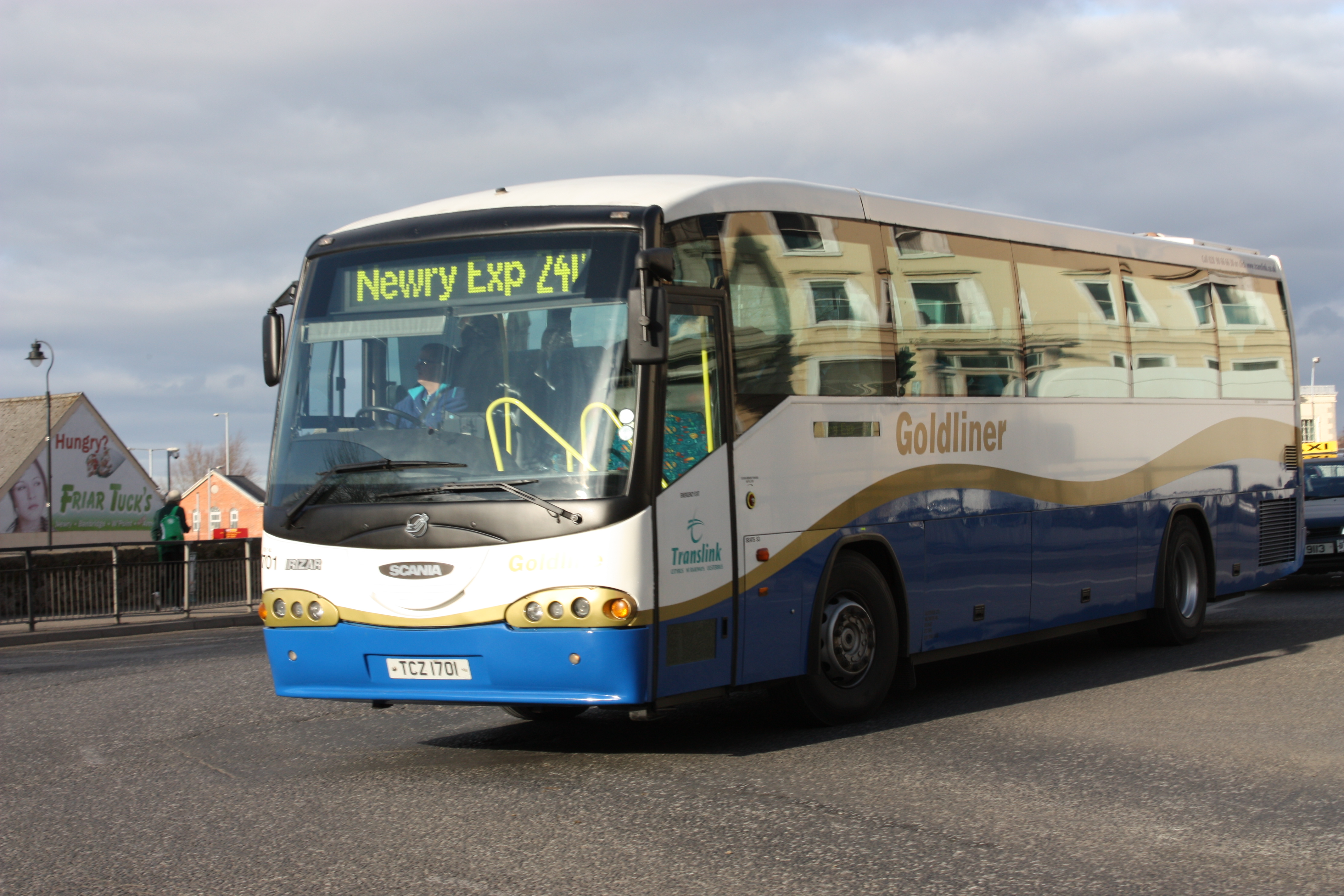 Ulsterbus Goldliner crossing junction from Trevor Hill into Kildare Street, Newry, County Down, Northern Ireland, March 2010